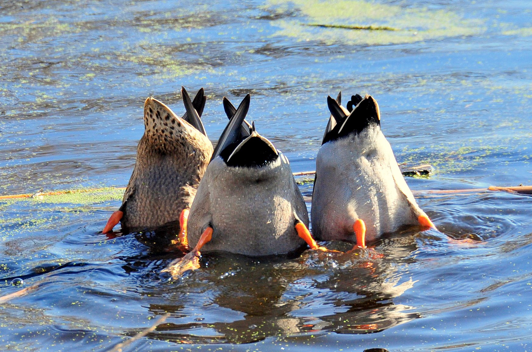 Credit: Tom Koerner / USFWS Photo Contest Entry #189